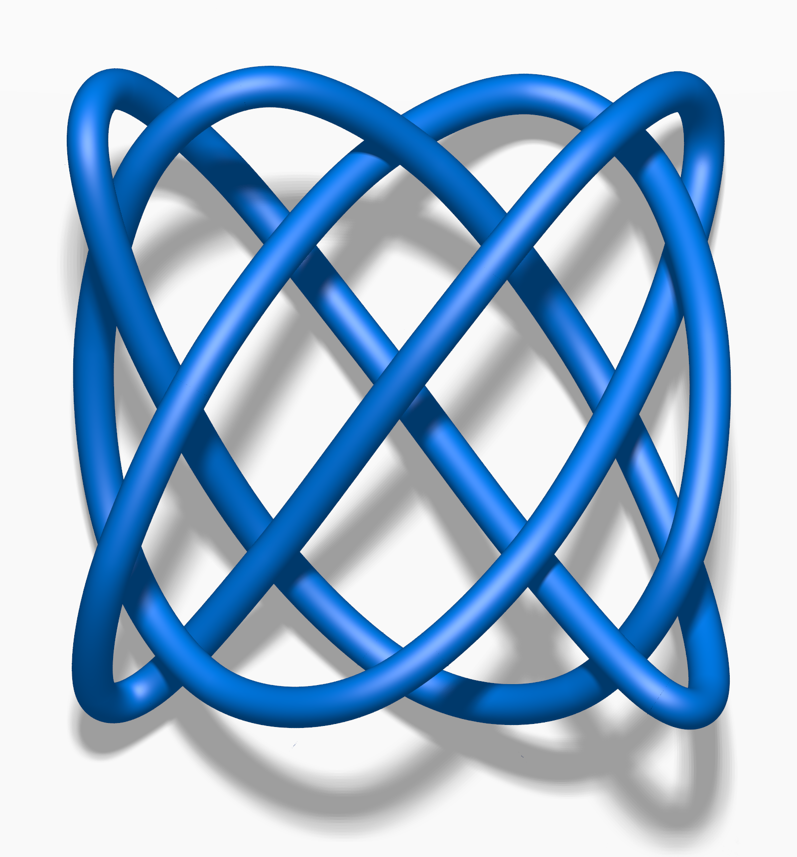 A Lissajous 821 knot.